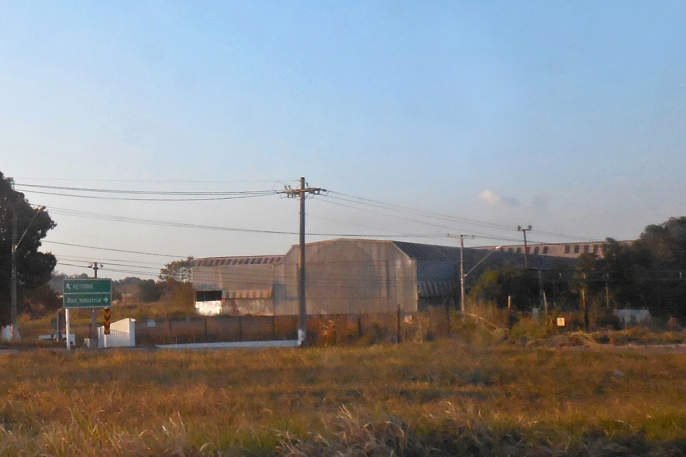 Barns in the Distrito Industrial (industrial district) of Santana do Paraíso, Minas Gerais, Brazil.